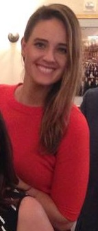 Derrick Kosinski, Norman Korpi, David “Puck” Rainey, Rachel Campos-Duffy, Laurel Stucky, and Sean Duffy at the launch of Congressional Ovarian Cancer Caucus.